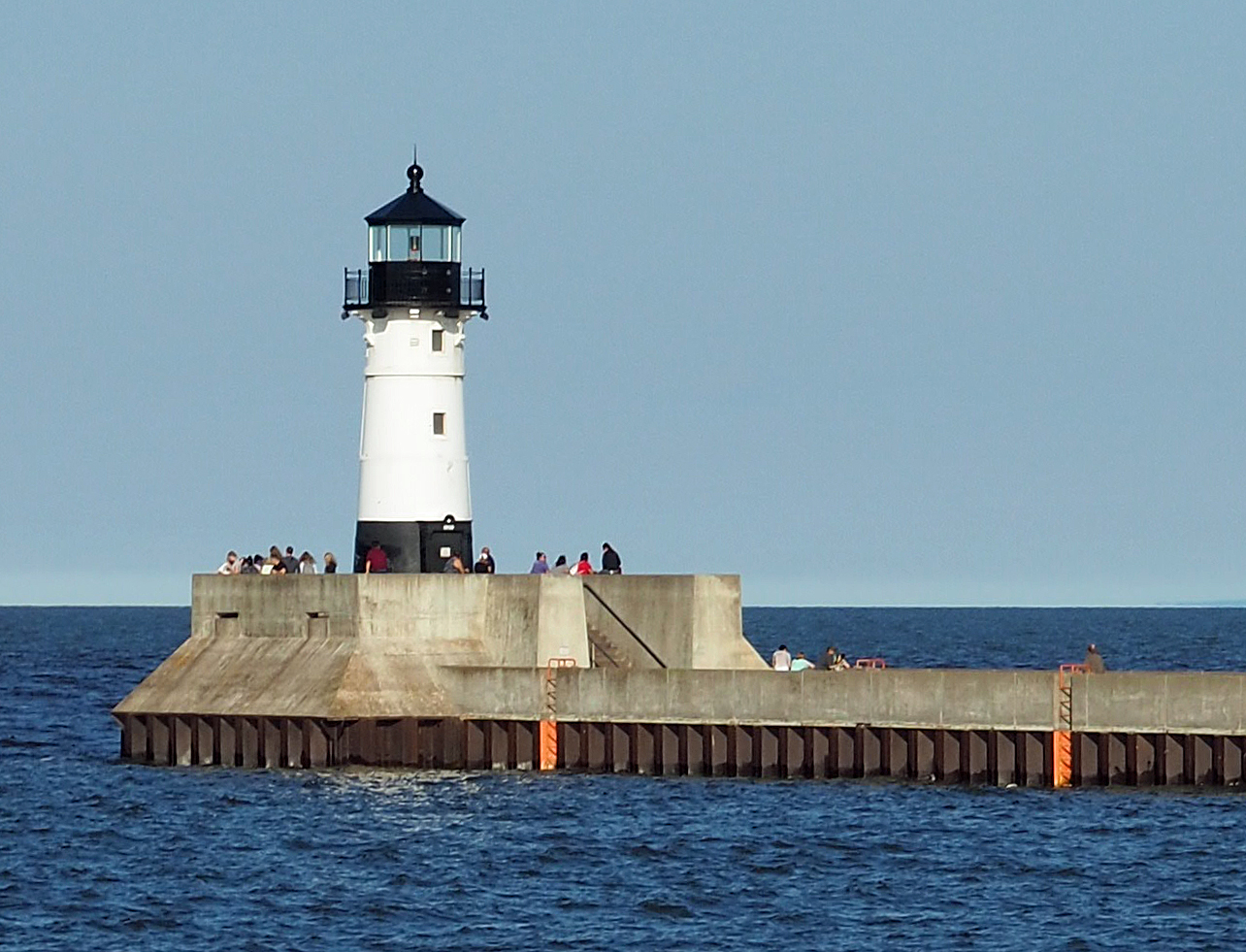 Duluth North Pier Lighthouse, Duluth, Minnesota, USA. Viewed from the west.